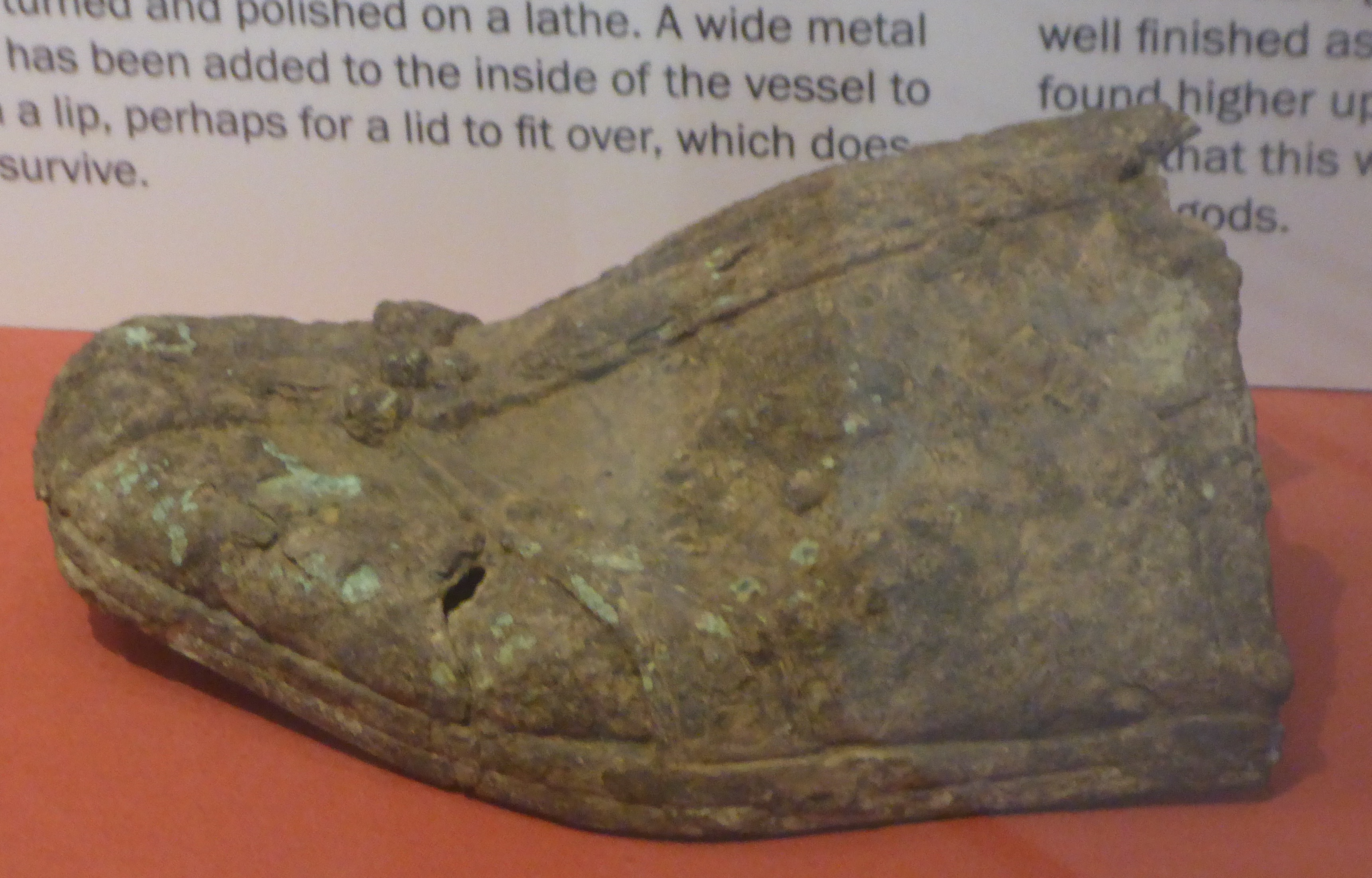 Foot of bronze statue, found in Roman temple complex at Tabard Square (London), now in the Museum of London